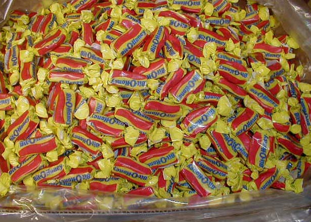 Bit-o-Honey bars. Took a picture of my sack. the bite-sized deliciousness. heh Bit-o-Honey bars. Took a picture of my sack. the bite-sized deliciousness. heh